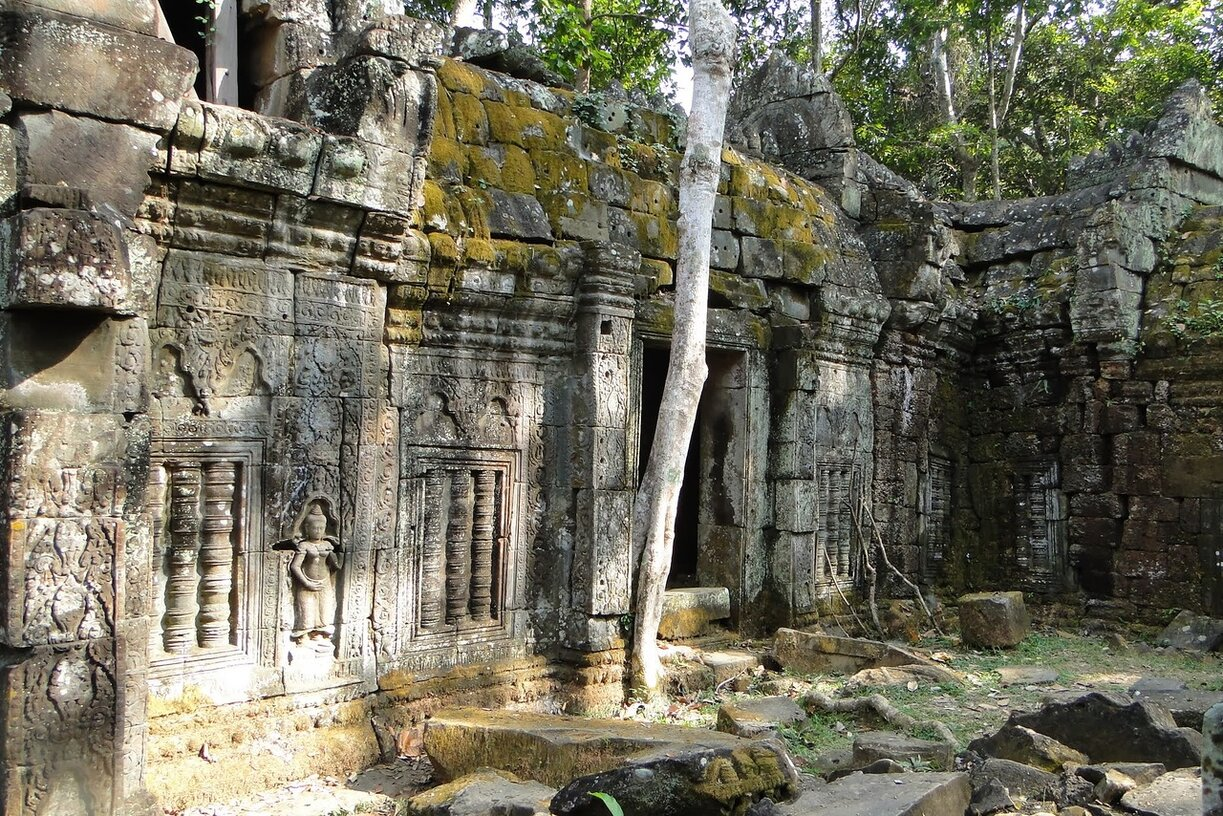 Ta Nei